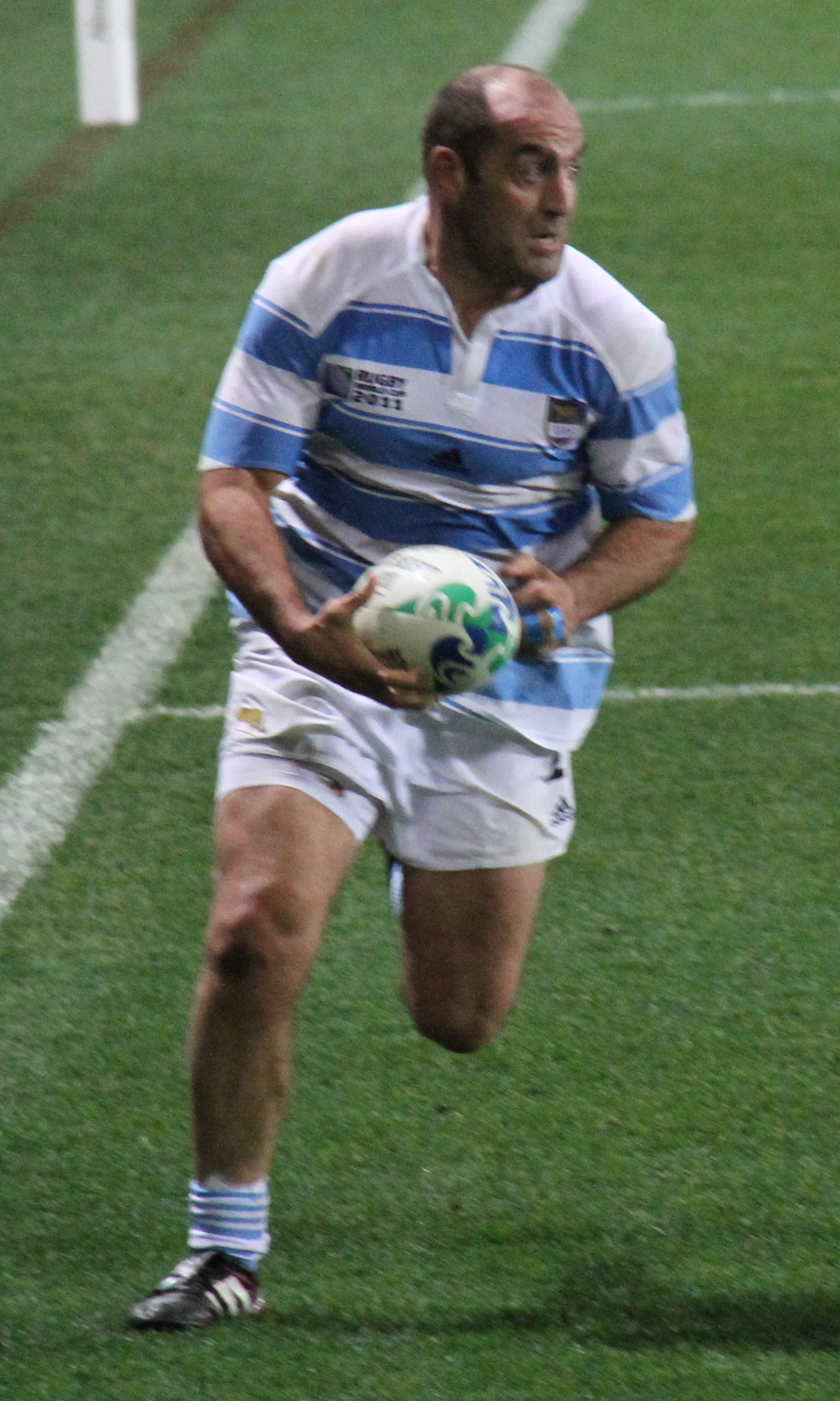 Argentinian rugby union player Mario Ledesma during 2011 Rugby World Cup match against England.